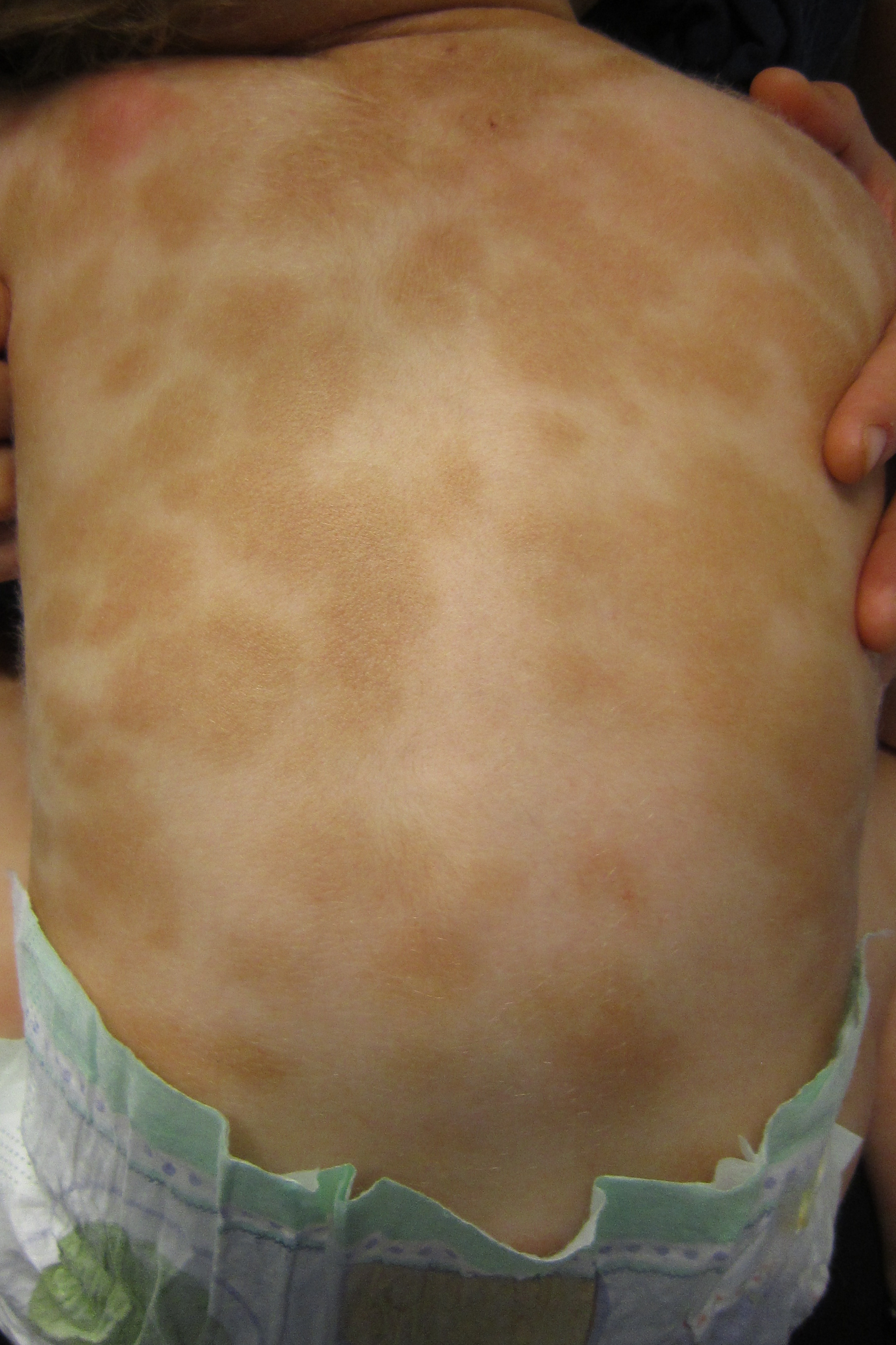 A child with uriticaria pigmentosa